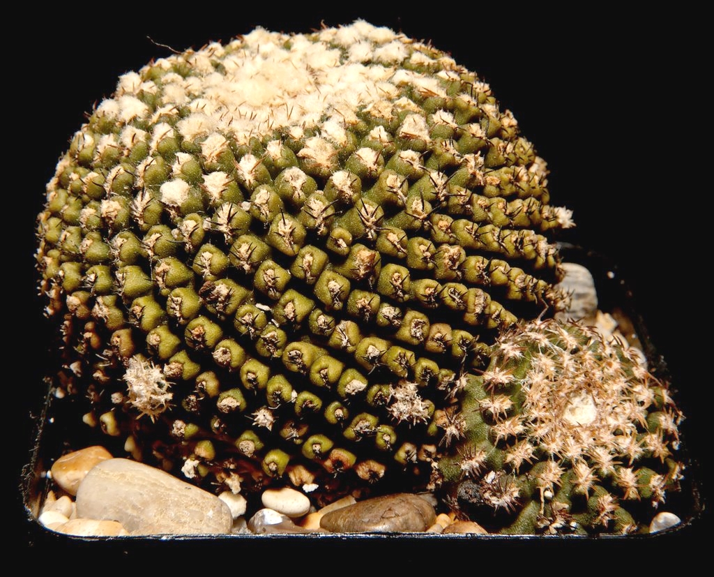 Eriosyce odieri